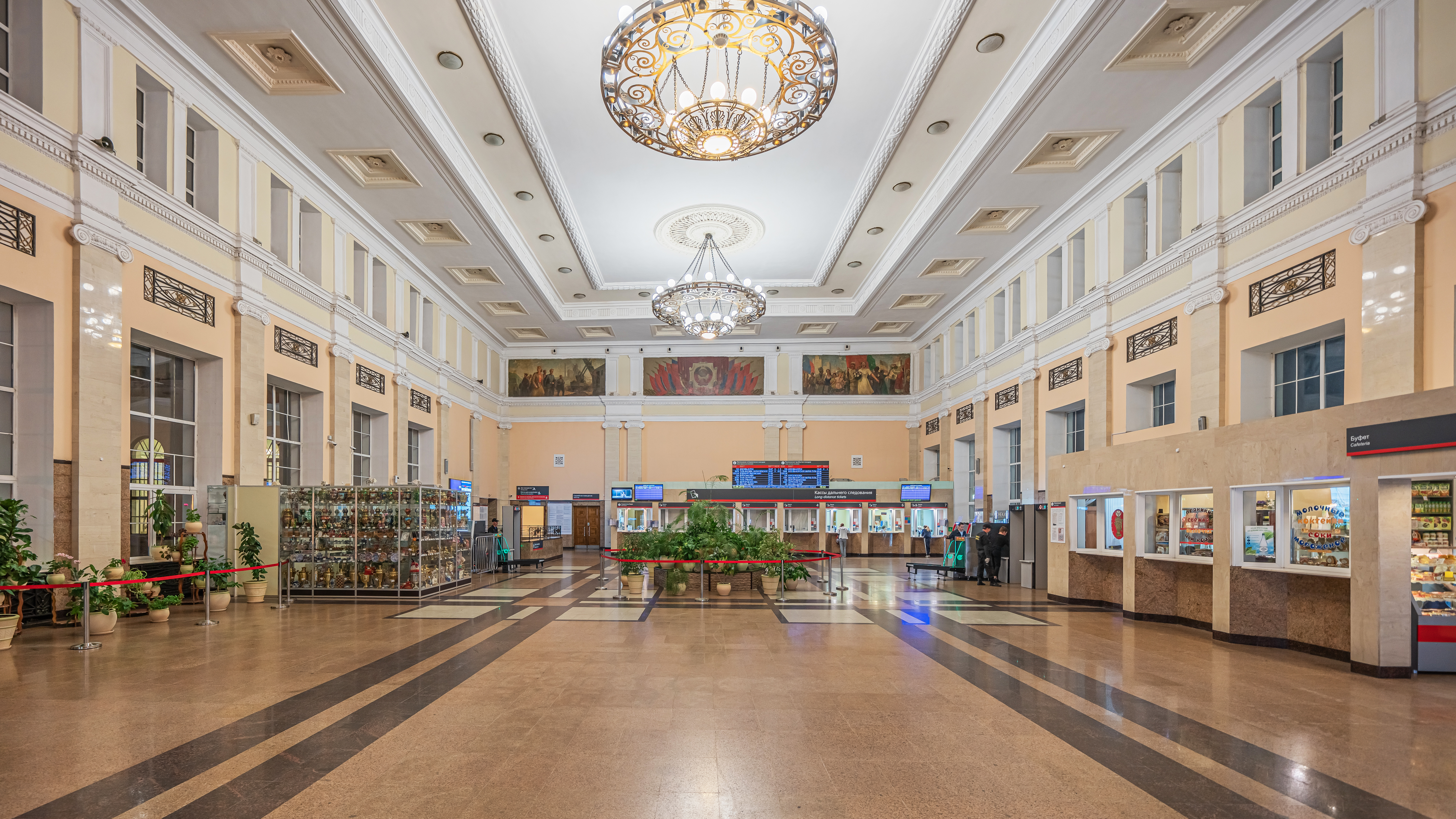 Interior of Moskovsky railway station hall in Tula, Russia